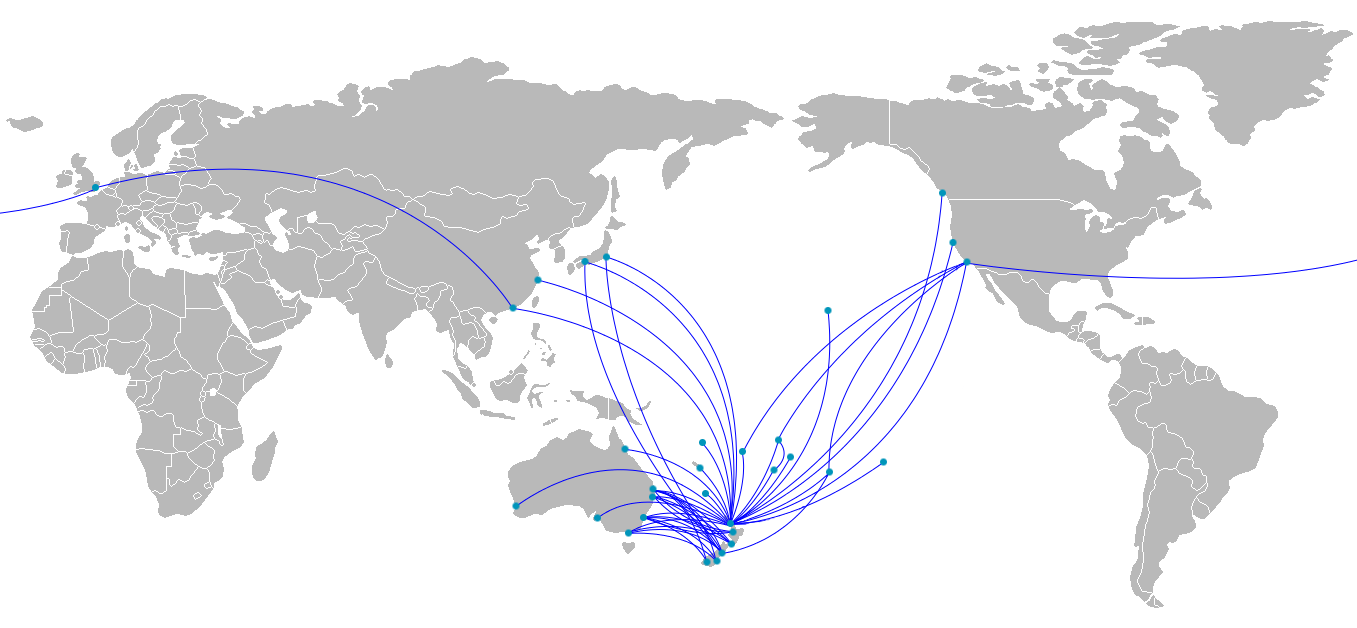 Map of global routes flown by Air New Zealand